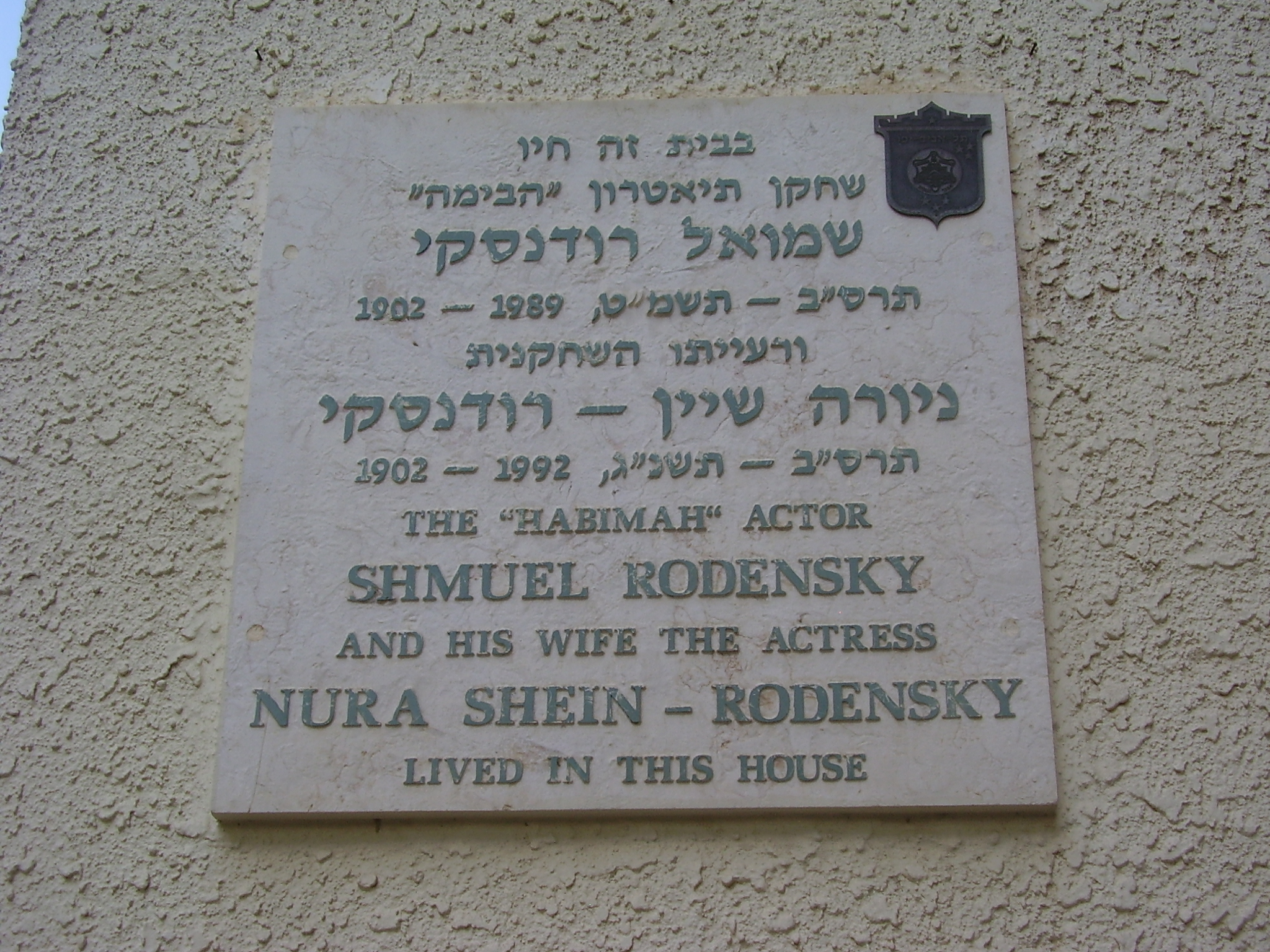 plaque memorial to the actors shmuel and nura rodensky in tel aviv לוחית זיכרון לשחקנים שמואל וניורה רודנסקי ברח' רחל 1 בתל אביב